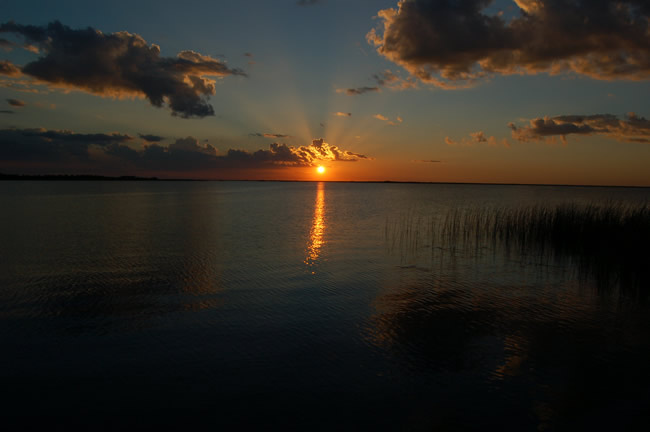 Iberá marshes. Corrientes province, Argentina.